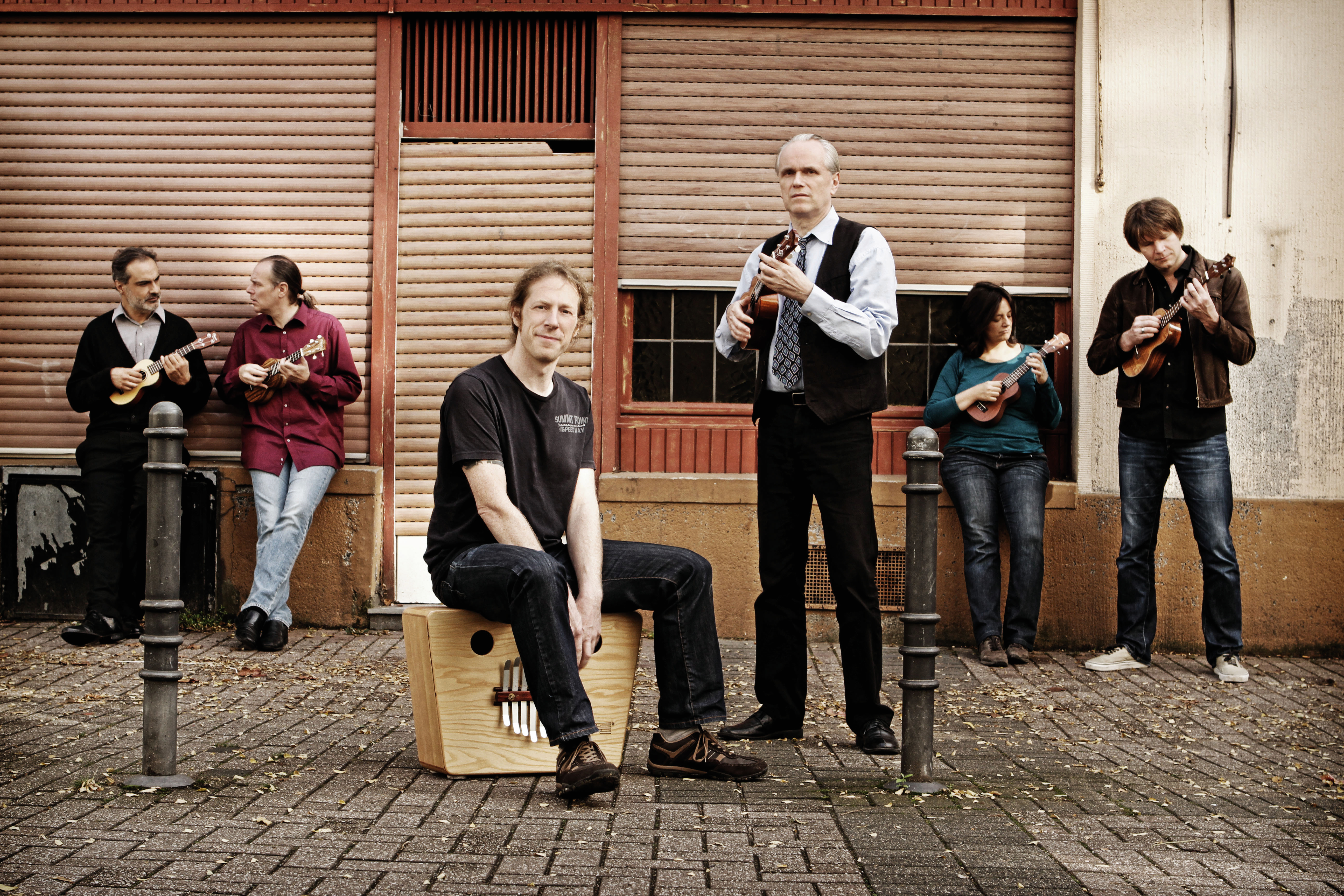 The CQ – Cologne Contemporary Ukulele Ensemble from Cologne, Germany (Photo: Marlene Mondorf).